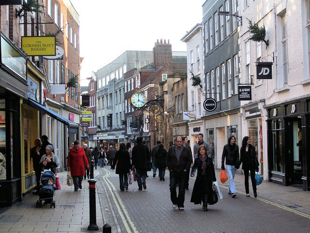 Coney Street York Coney Street York one of York's busiest shopping streets.